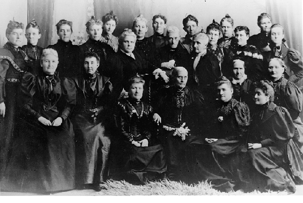 Susan B. Anthony (first row fourth from left) with suffrage leaders from Utah and elsewhere. Dr. Martha Cannon standing far left.